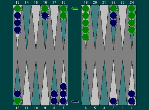 A possible situation in the game Tapa, where the green is in trouble.